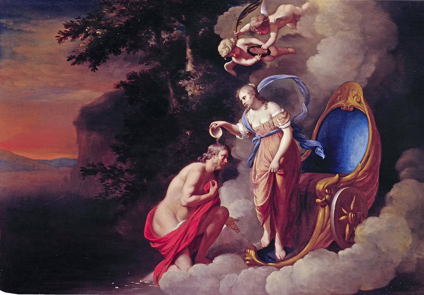 De apotheose van Aeneas